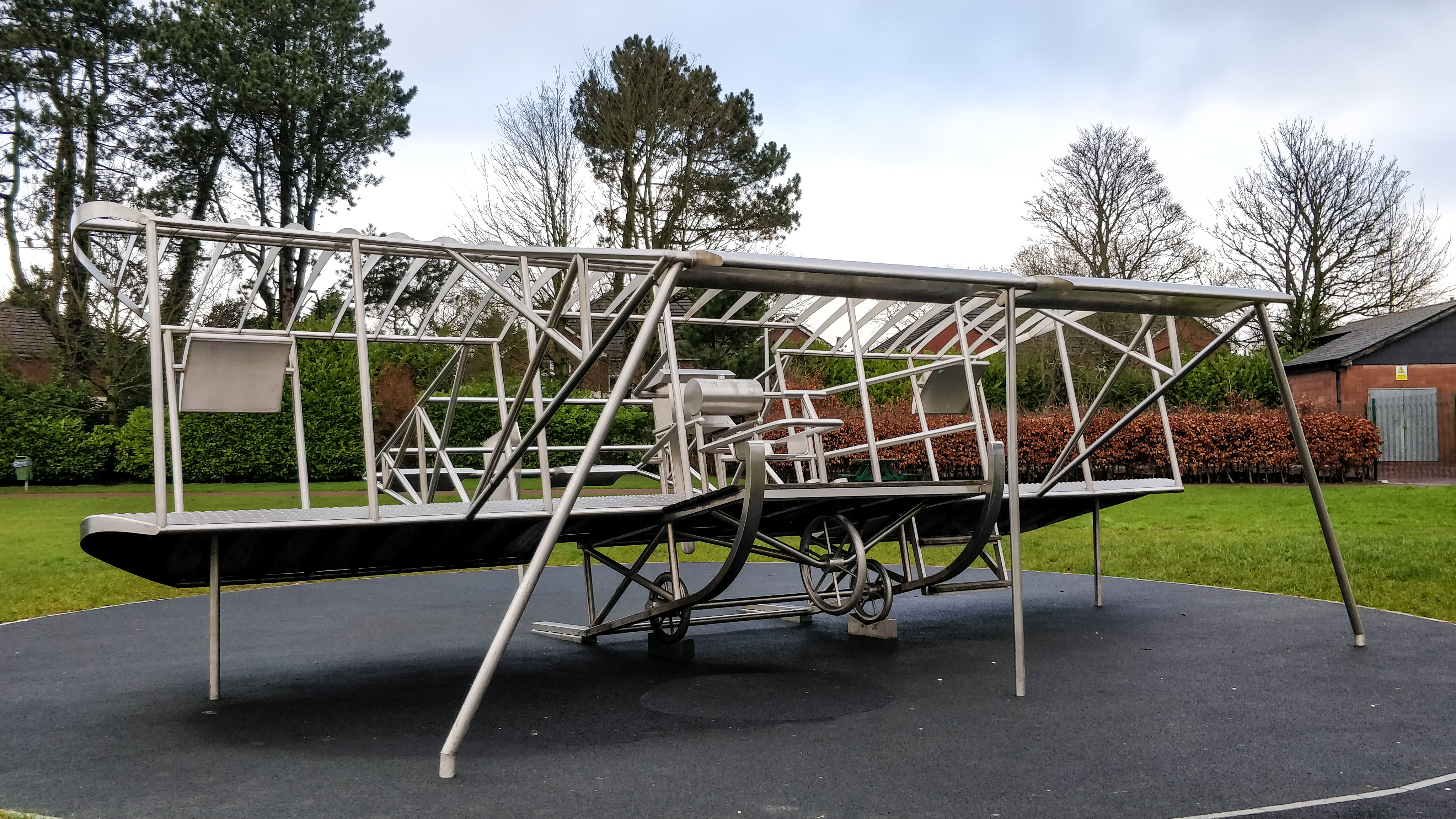 This sculpture depicts the Mayfly designed, built and flown by Lilian Bland in 1910 on Carnmoney Hill, Northern Ireland. It is located in the Lilian Bland Community Park, Glengormley.